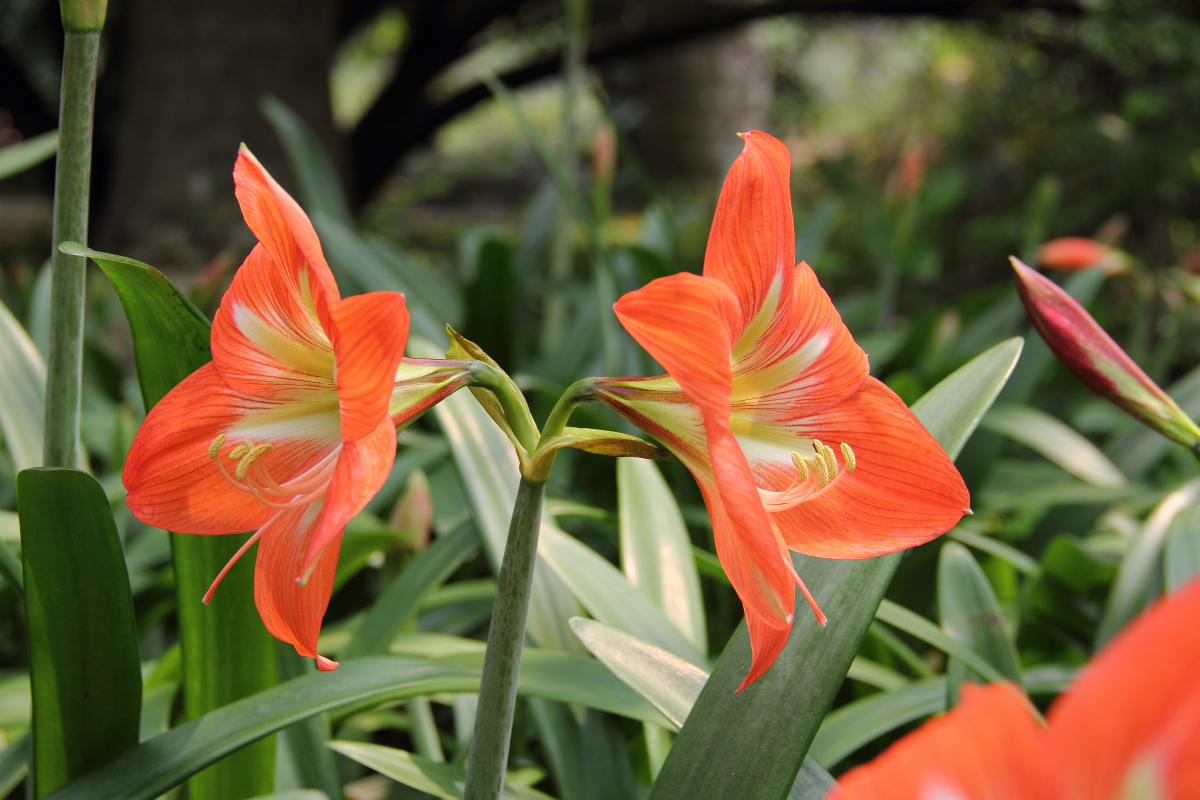 Our hometown is Brazil and we love the warm and moist environment, but it shouldn't be too hot, 18~25℃ would be perfect. If you plant our bulb in spring, then you will enjoy our flowers in early summer.